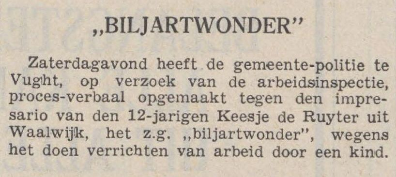 Advertisement over the “Wonderboy“ in Waalwijks Algemeen Handelsblad 8 February 1938